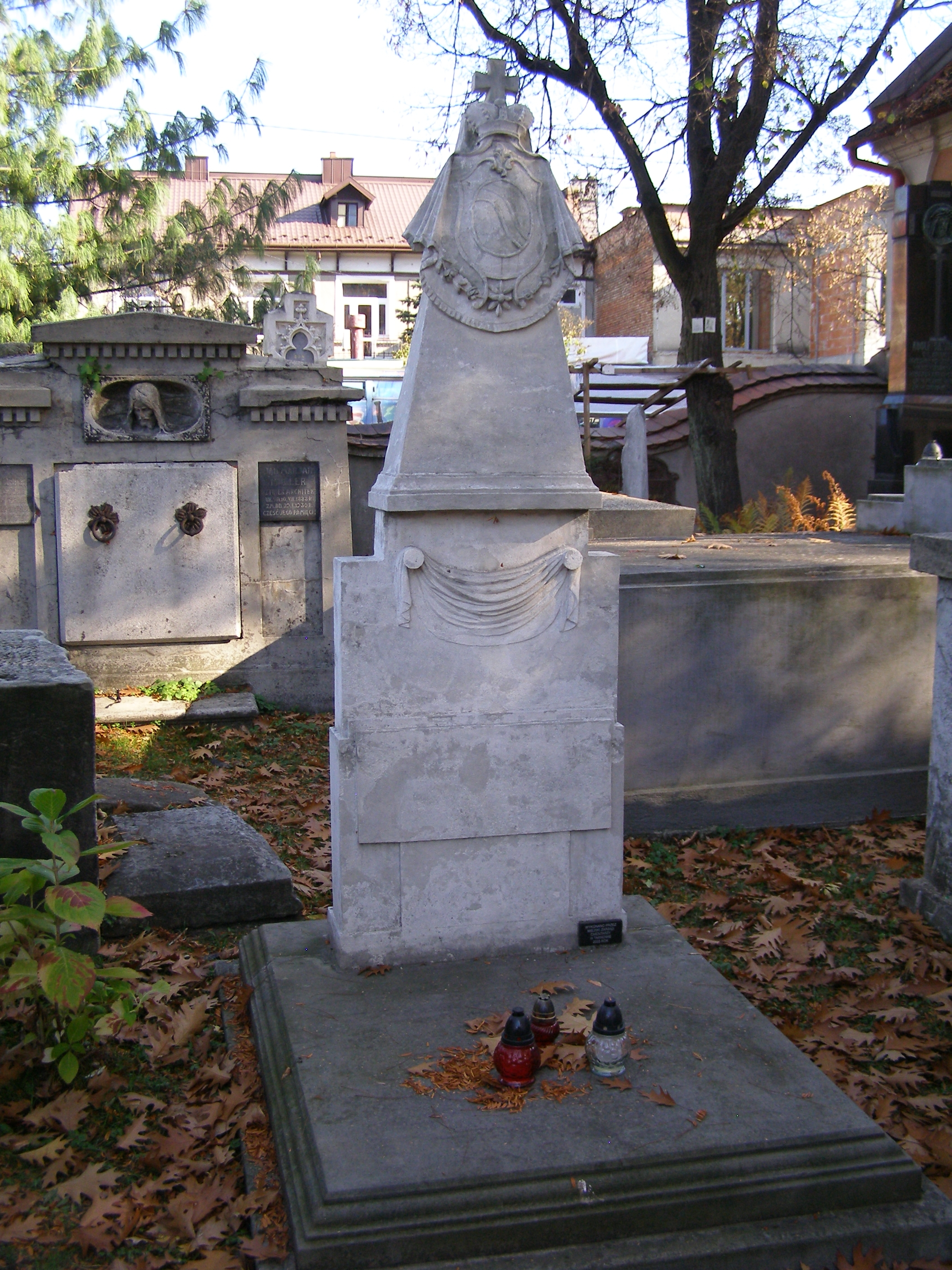 Tarnów - Old Cemetery - gravestone of Anna Maria Radziwiłł, the wife of Prince Karol Radziwiłł